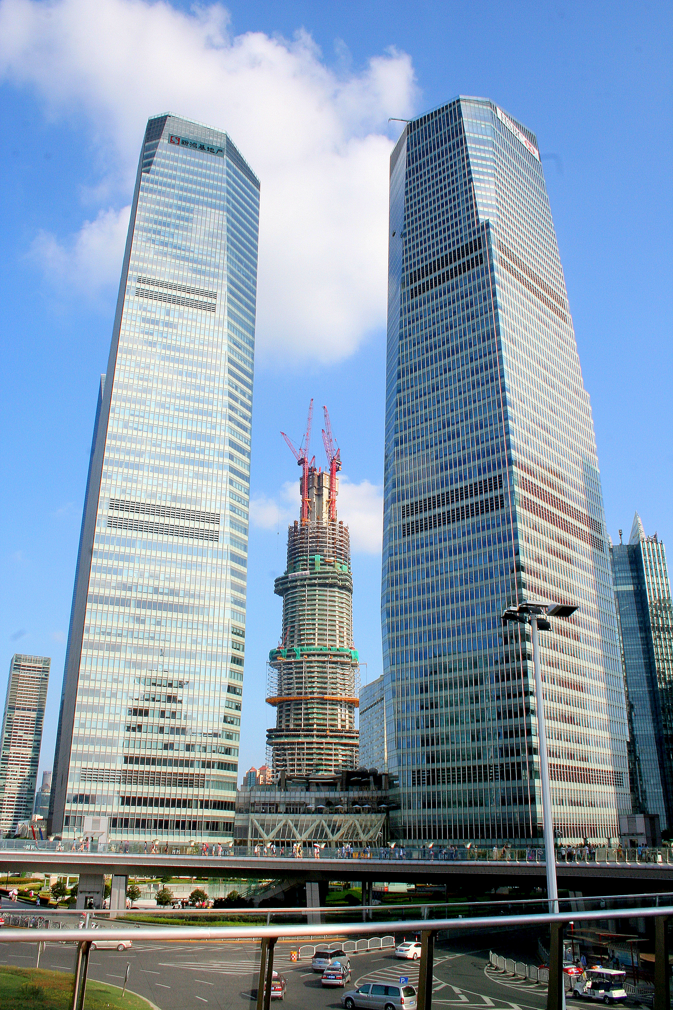 This is a picture of Shanghai Tower between the two Shanghai IFC towers, as the Shanghai Tower appeared in August 31, 2012.